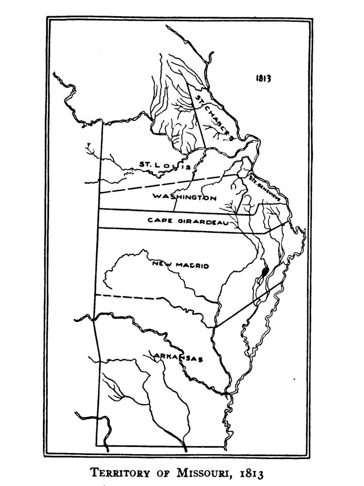 A Map of the U.S. Missouri Territory in 1813 — in present day Missouri and Arkansas. The Missouri Territory was disestablished in 1821, when the southeastern portion of the territory was admitted to the Union as the State of Missouri. Prepared by the University of Missouri Political Sicence Department and published in 1918.